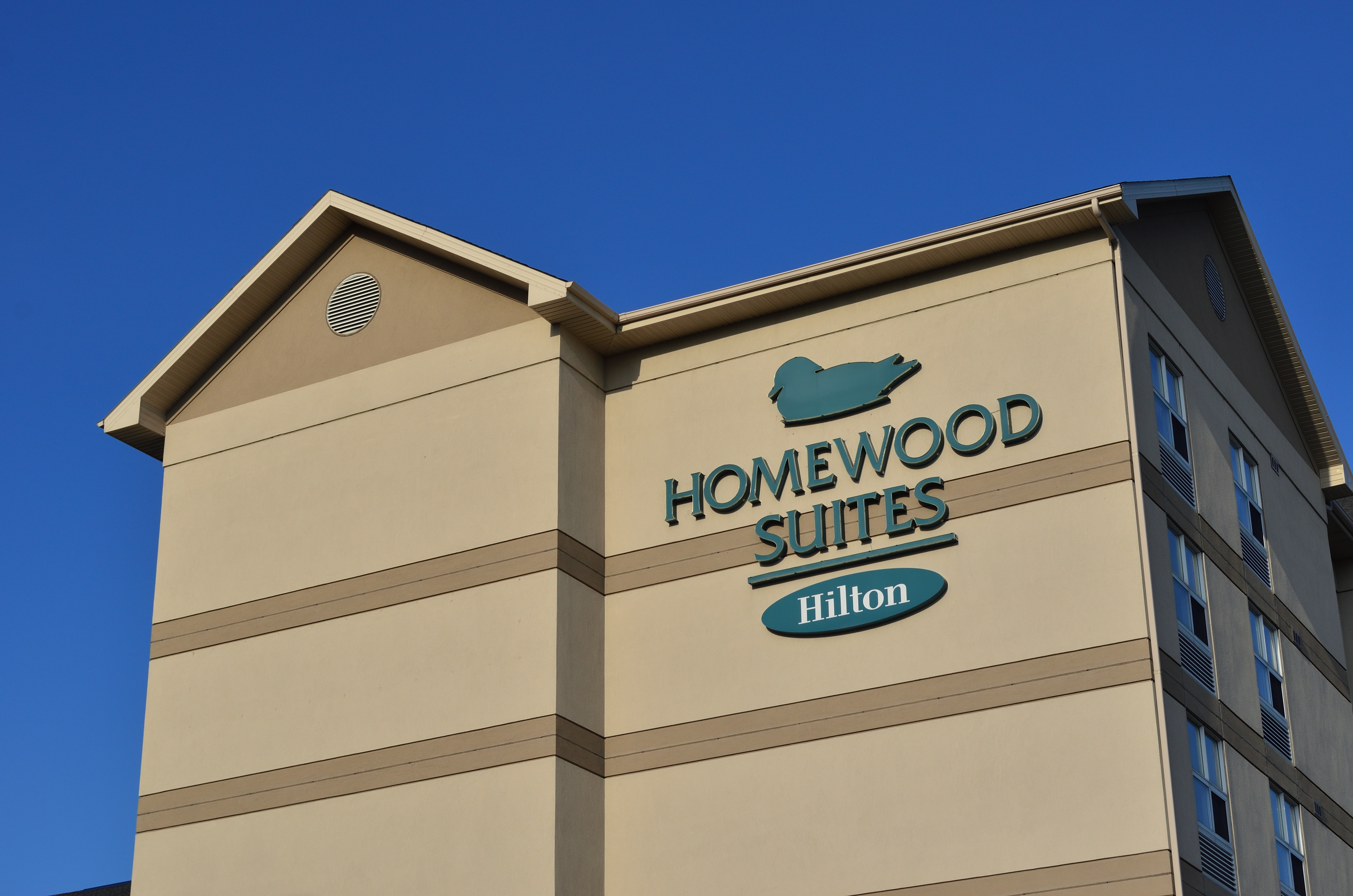 Homewood Suites by Hilton Toronto-Markham